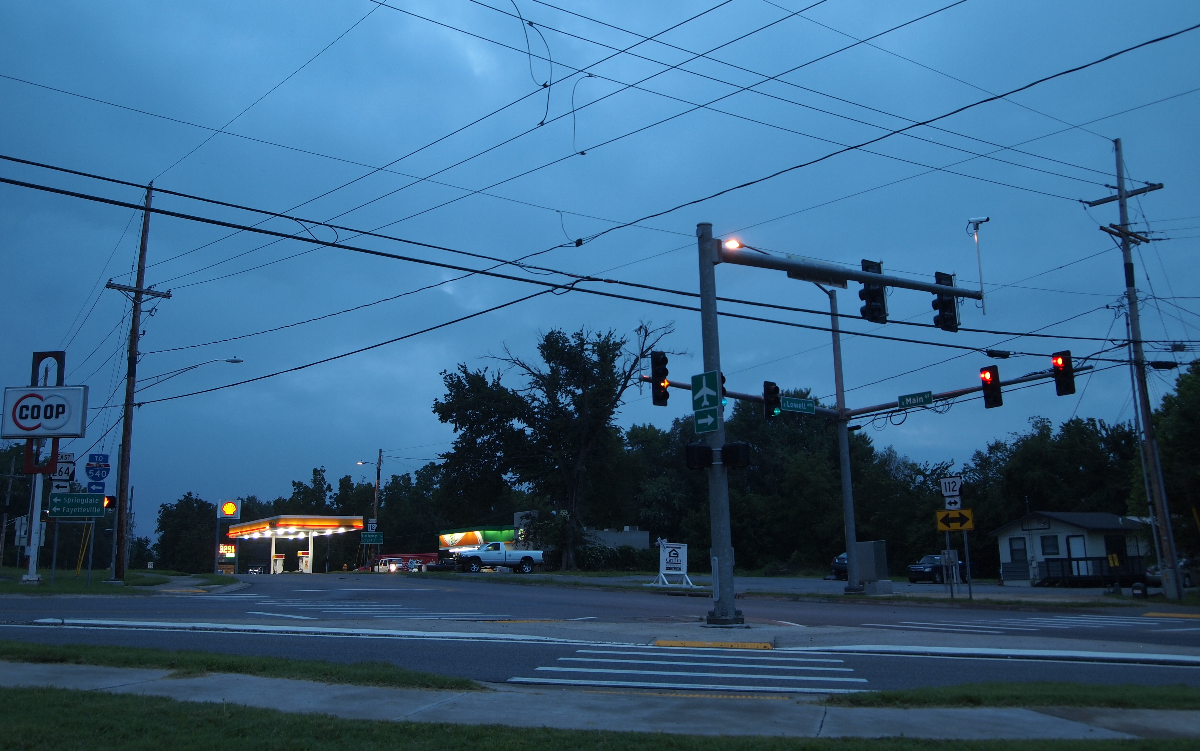 The main intersection of Cave Springs, AR. For those who go to the XNA (Bentonville Regional Airport) from Fayetteville or Springdale areas, the two alternatives of routes meet here.